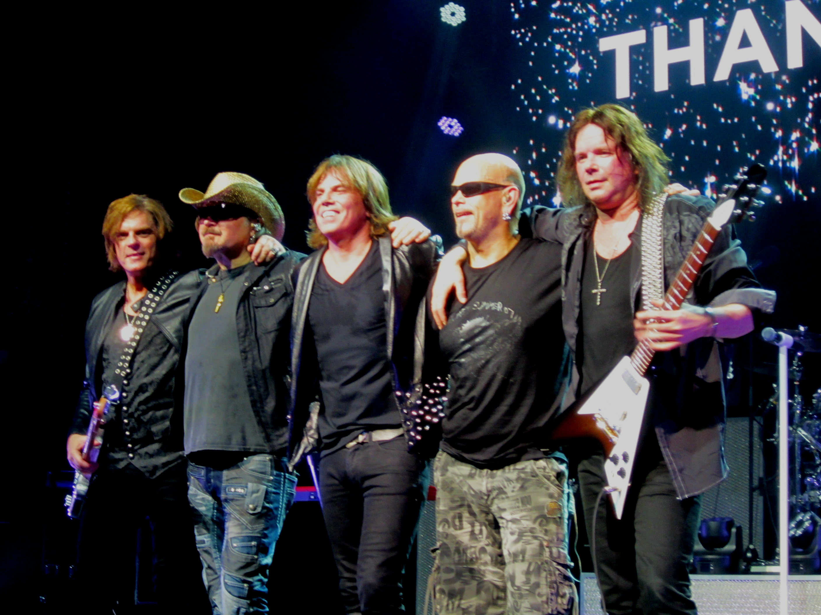 The Swedish rock band Europe on stage at Cirkus in Stockholm, Sweden on November 8, 2016. From left to right: John Levén, Mic Michaeli, Joey Tempest, Ian Haugland and John Norum.